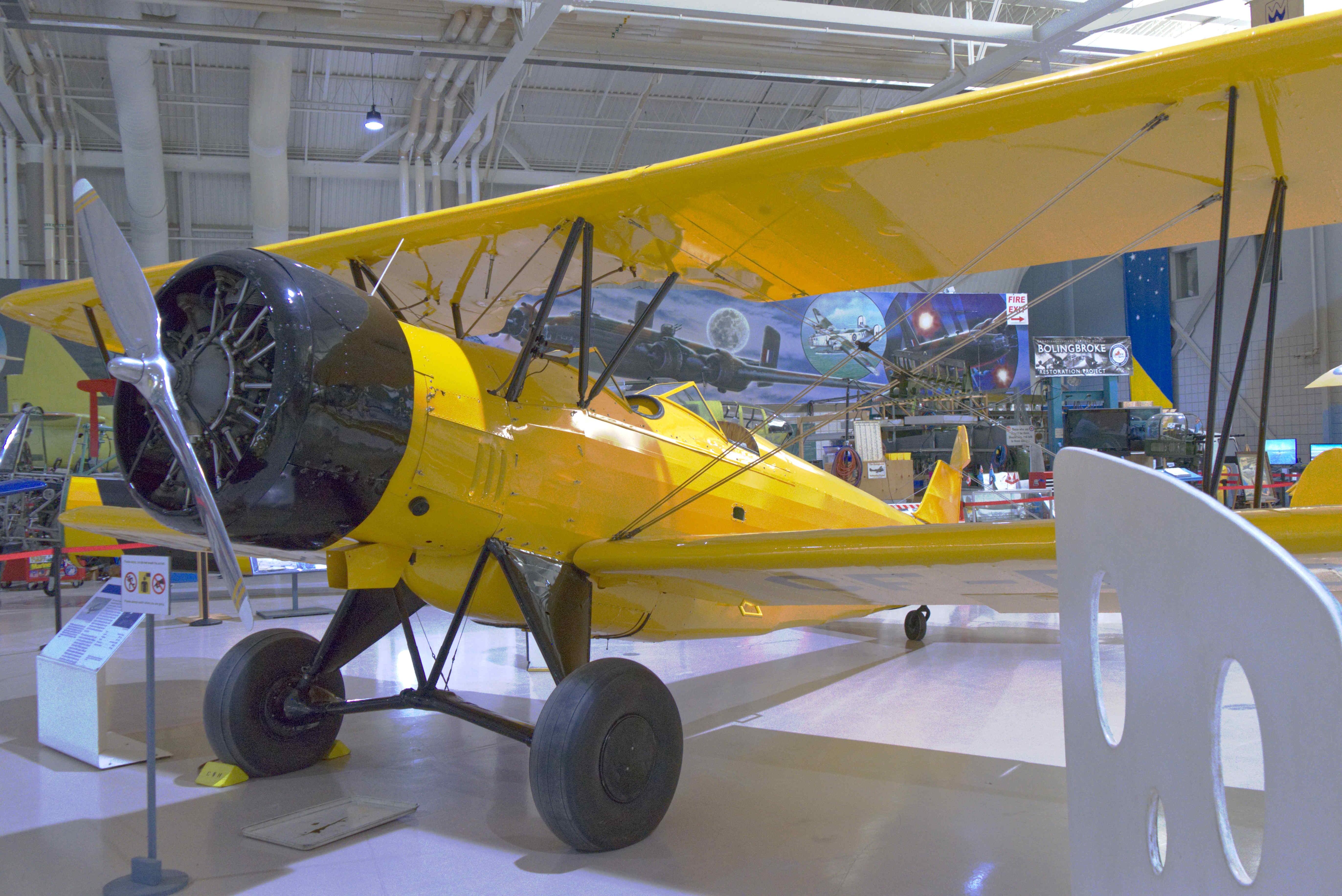 The Fleet Model 21K biplane. The only one ever made, Canadian registration CF-DLC. This aircraft is seen at the Canadian Warplane Heritage Museum in Hamilton, Ontario, Canada. CF-DLC was flown by Fleet Aircraft's chief test pilot Tommy Williams until he retired from flying at age 82.